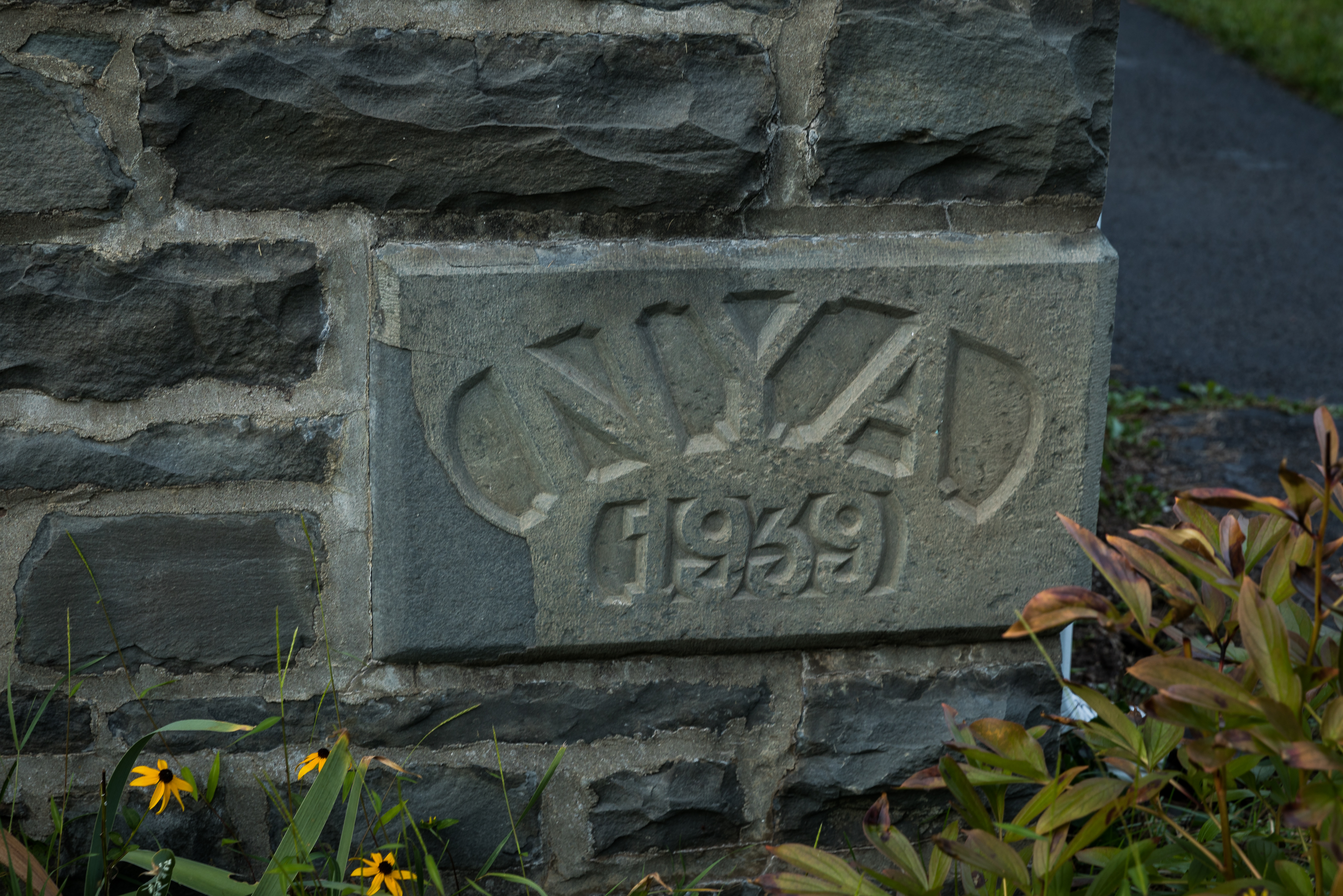 National Youth Administration Woodstock Resident Work Center cornerstone. Now Woodstock School of Art.